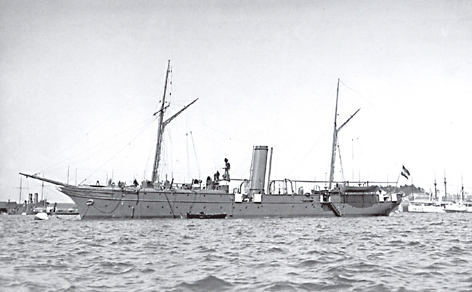 Austro-Hungarian gunboat (SMS Sebenico) - copyright expired